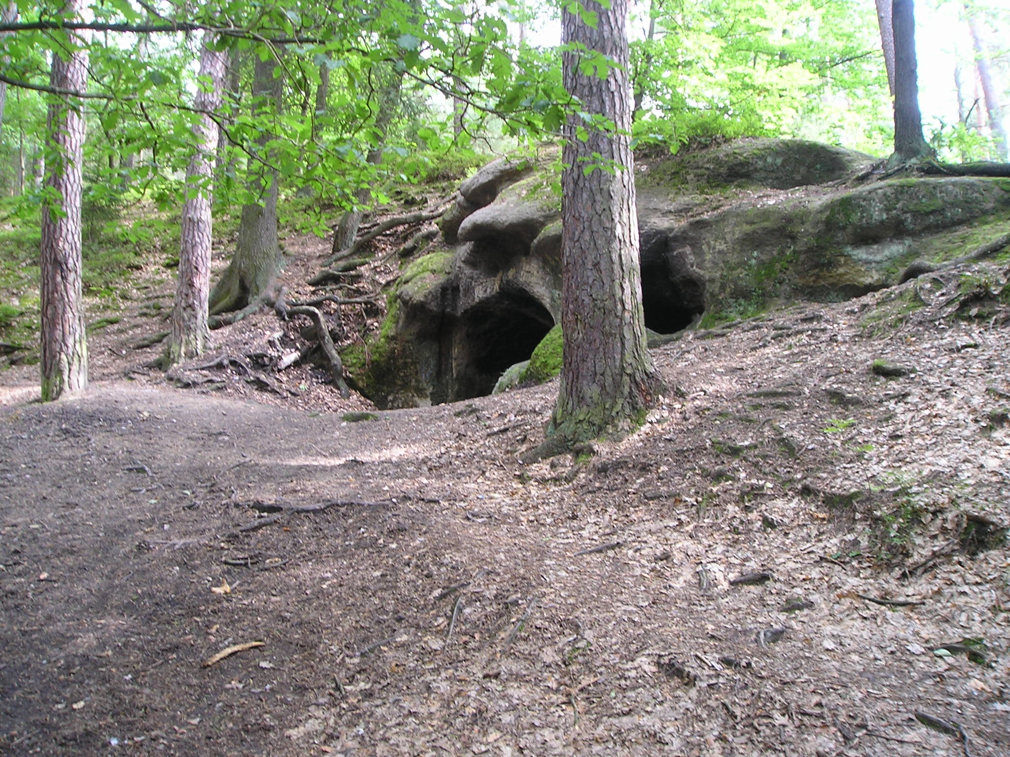 Cave Petrovská, Nature reserve Petrovka, Bolevec, Pilsen